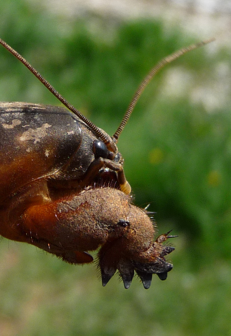 Mole cricket (Gryllotalpa gryllotalpa). Ukraine.